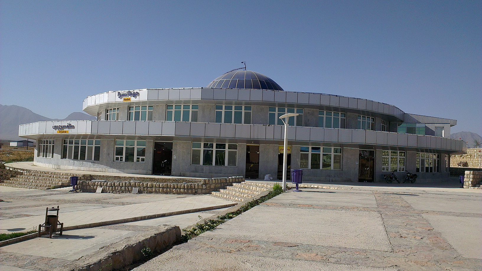 Restaurent of Islamic Azad University of Khomein.